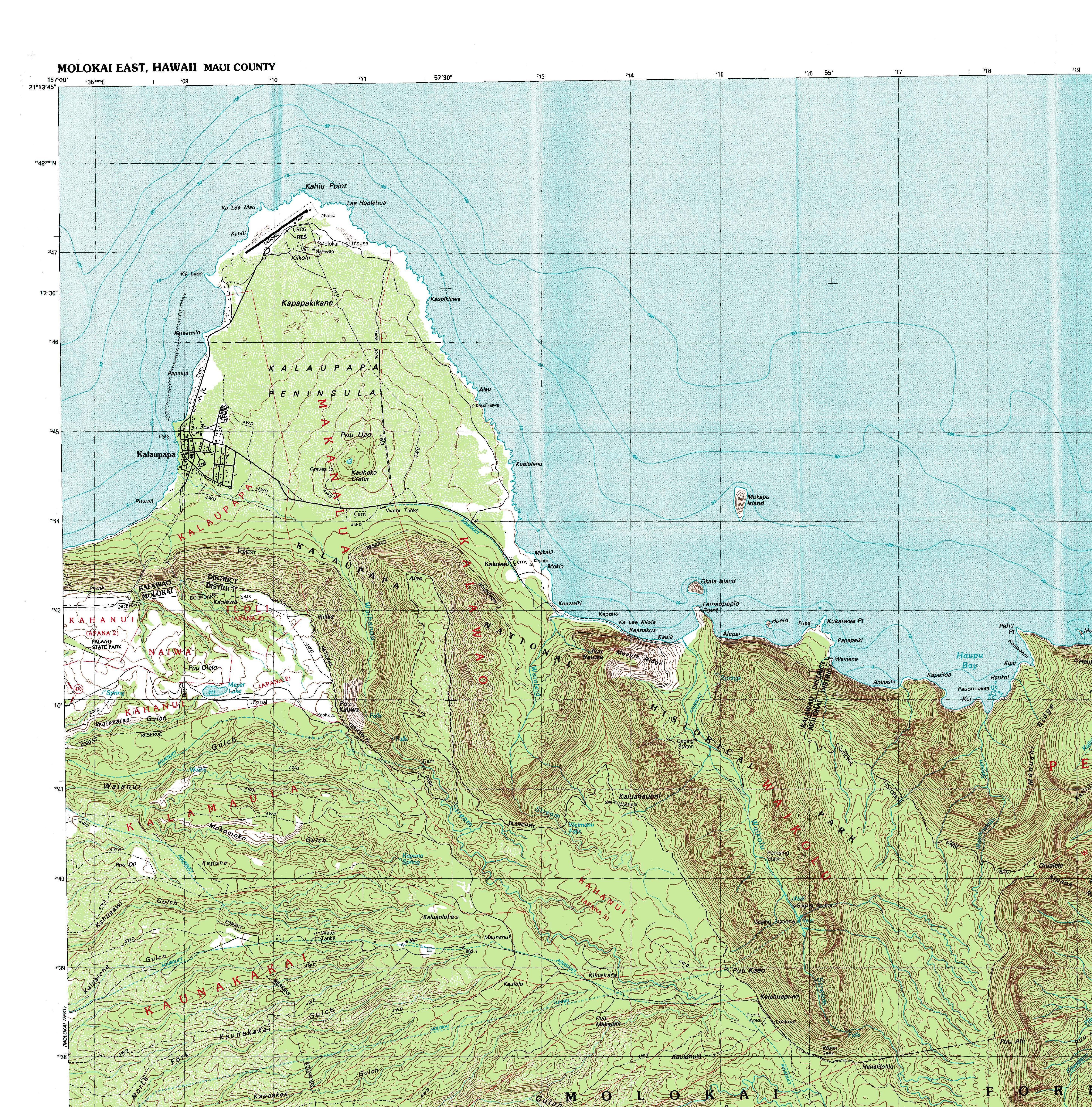 topo map of eastern Molokai Island, Hawaii